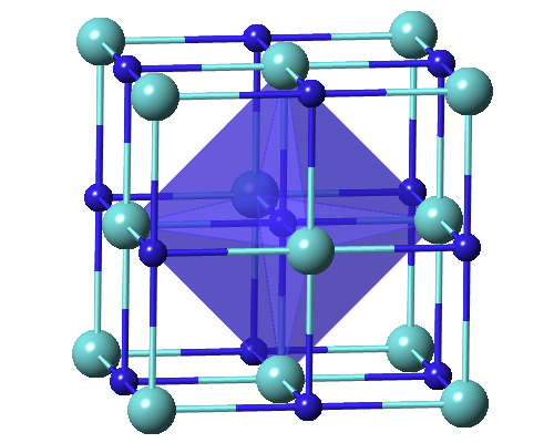 Zirconium nitride in the unit cell, cubic, Fm3m, 4 molecules in the cell.